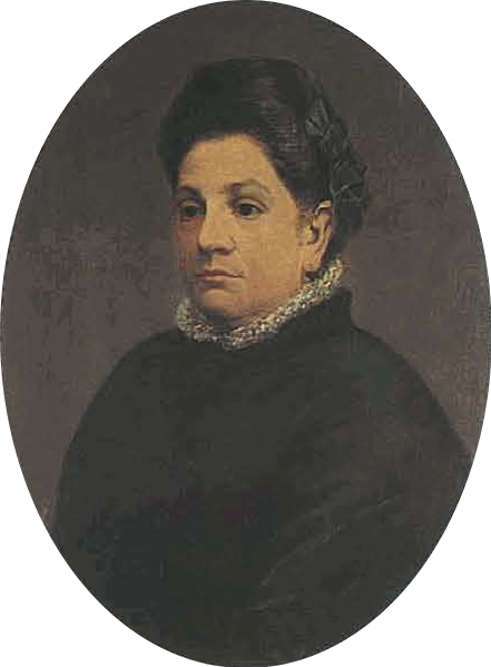 Portrait of Joana Maria Ferreira da Silveira, Countess of São Mamede (1834-1897)